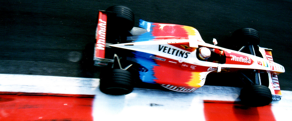 Alex Zanardi testing for WilliamsF1 at Monza in 1999.